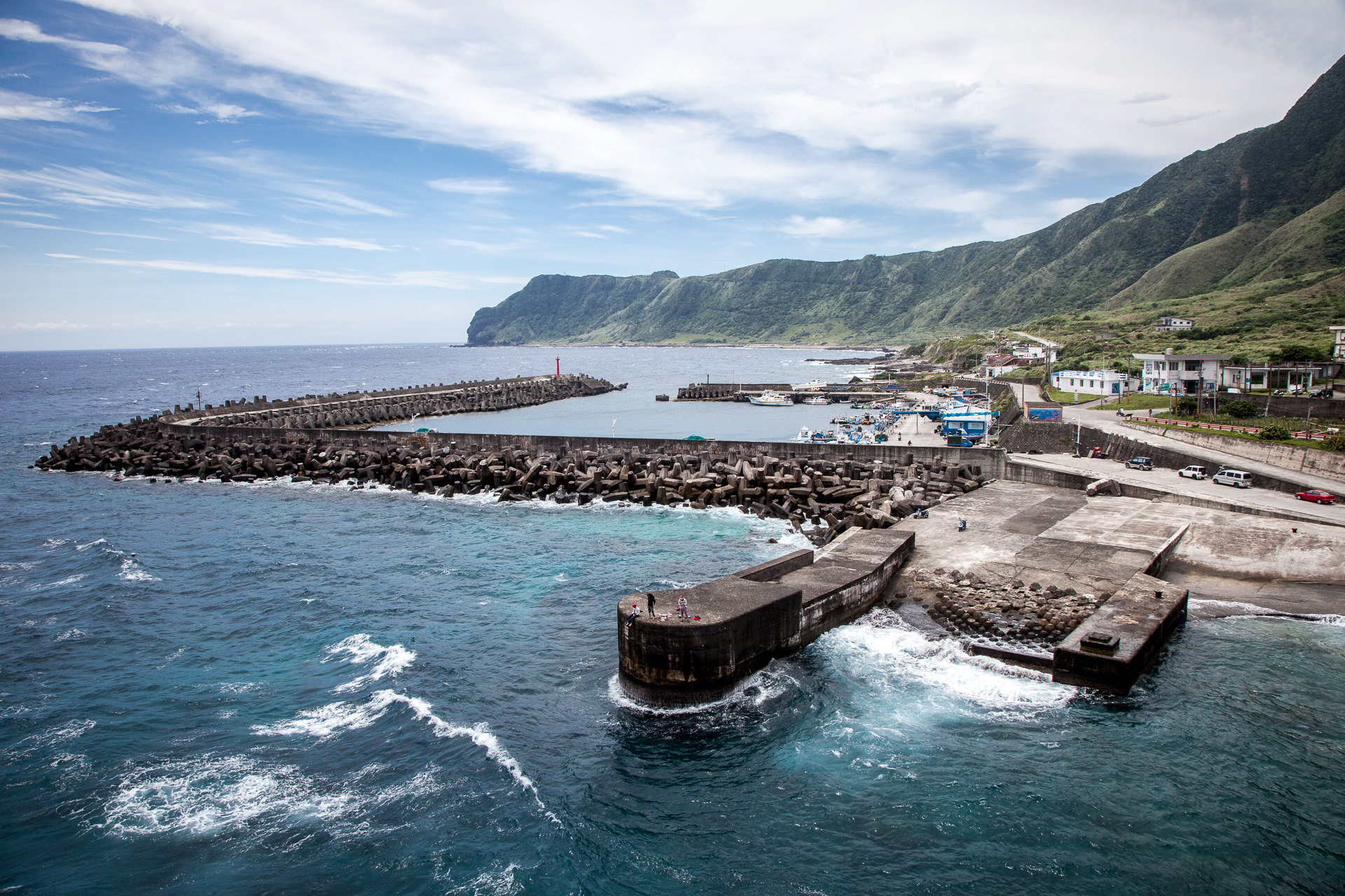 Kaiyuan Harbor is the major harbor on the northwest coast of the Orchid Island and is also the main access point to the island for travellers coming from Taiwan. There are regular ferry connections from Fugang and Houbihu to this island. The harbor is an artificial harbor, started its operations in 1965. It is currently used for fisheries and passenger ferry.